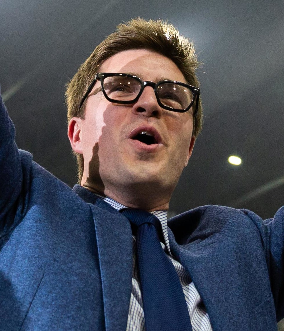 Photo: Thomas Skrlj/AHL